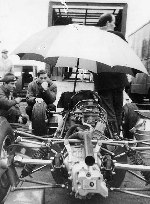 Jim Clark in the Lotus pit at the Grosser Preis Von Deutschland 2nd August 1964